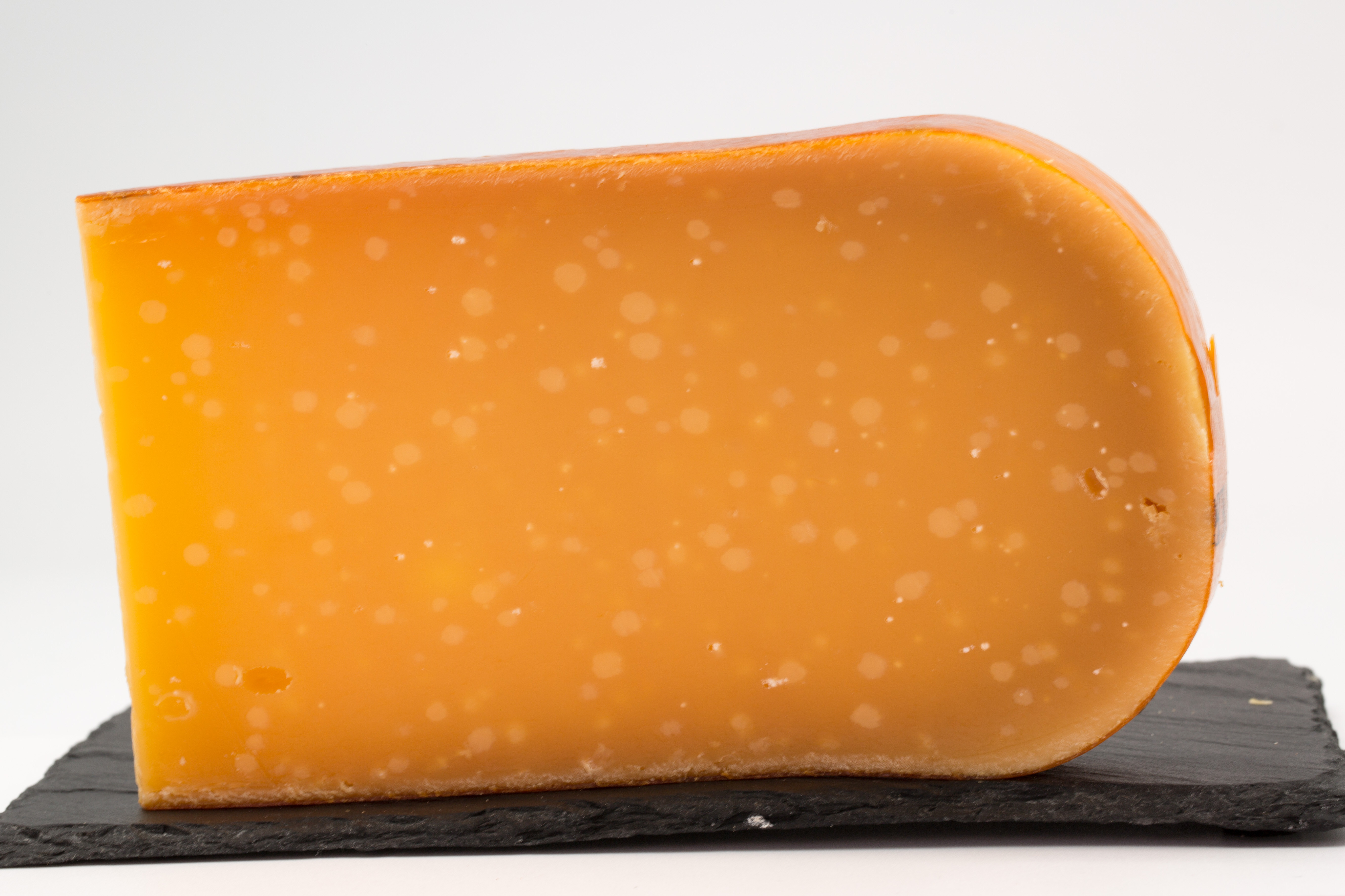 Cheese